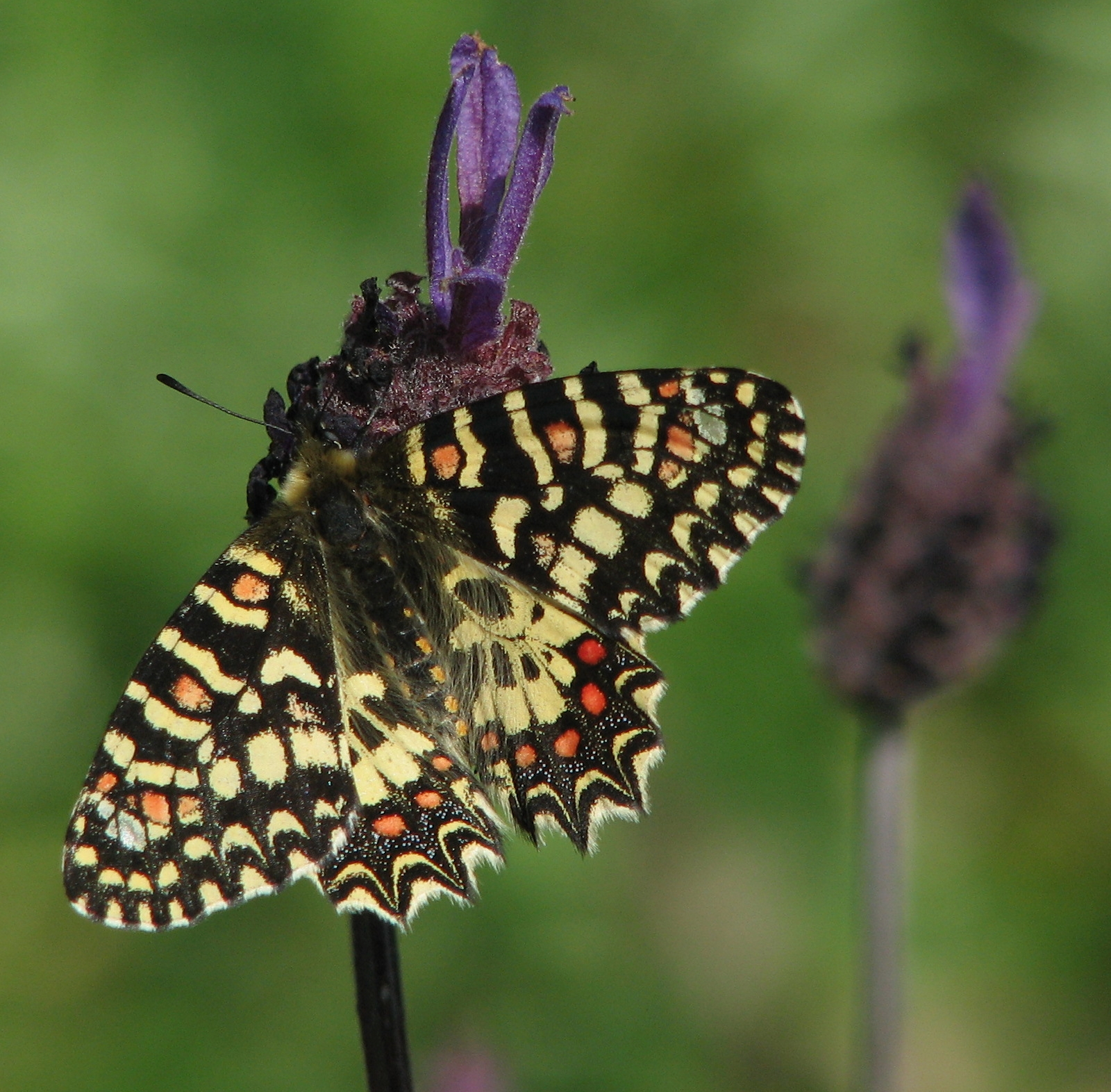 Zerynthia rumina L. on Lavandula flowers. Taken at Mayorga evergreen oak (Quercus rotundifolia L.) woods (Badajoz, Spain).